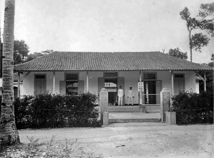 Photograph. The Tiong Hoa Hwe Kwan School in Soengailat